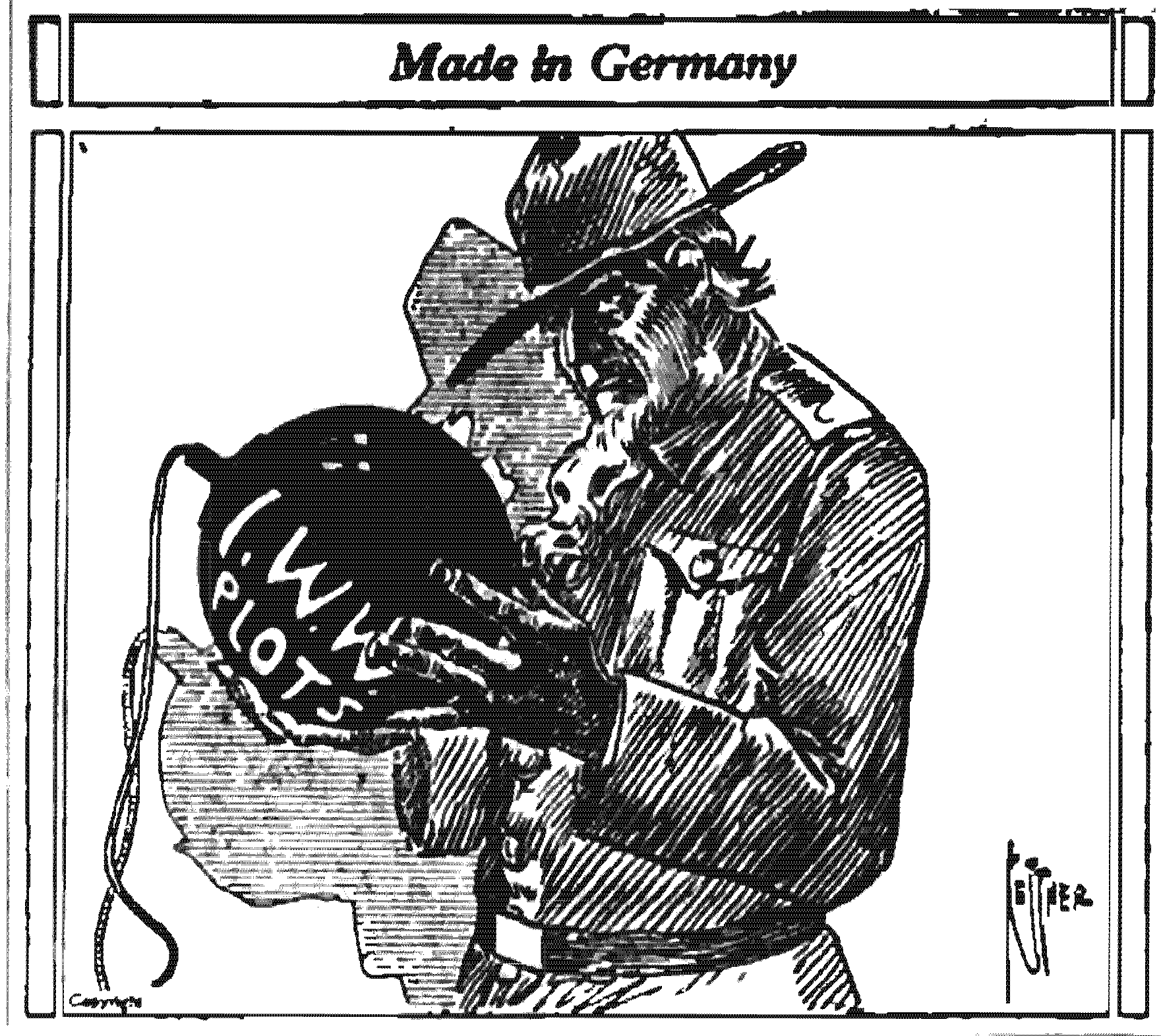 Newspaper editorial cartoon critical of the Industrial Workers of the World